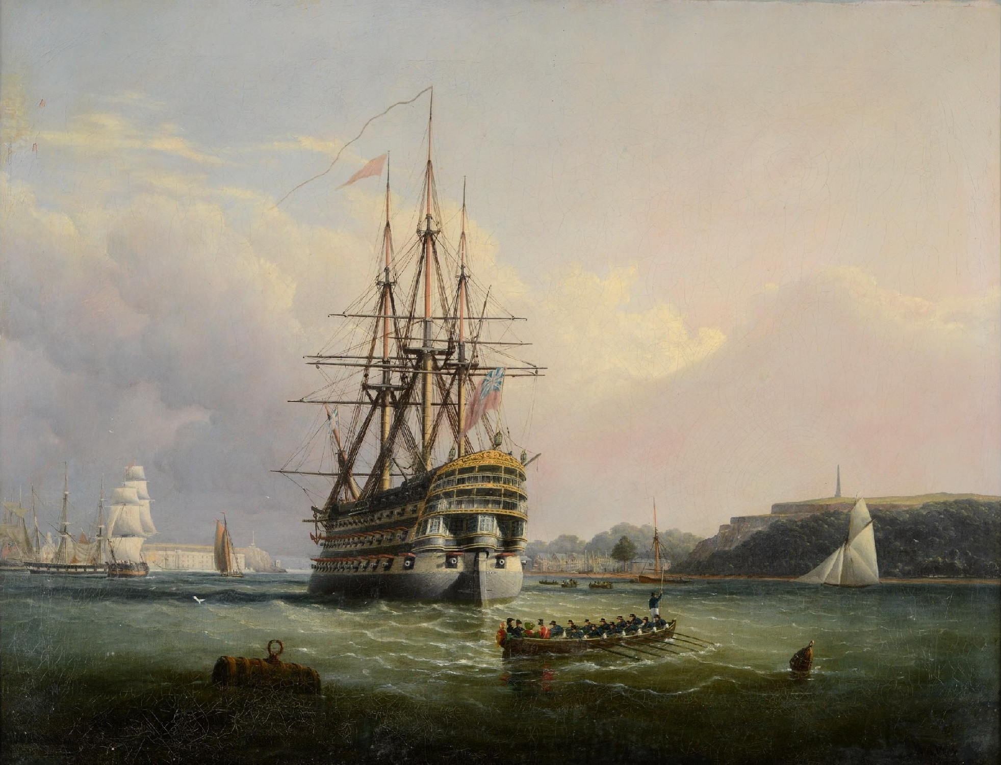 HMS Royal Adelaide was built in 1828